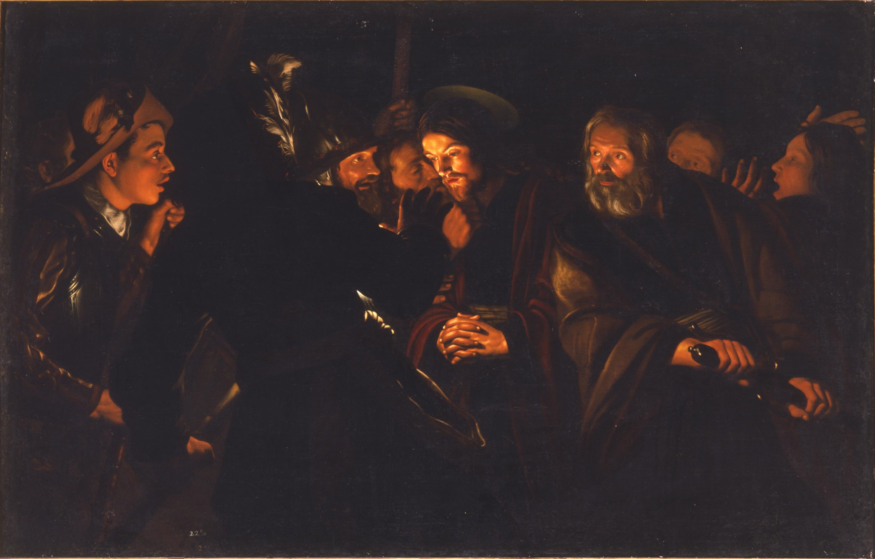 The arrest of Jesus